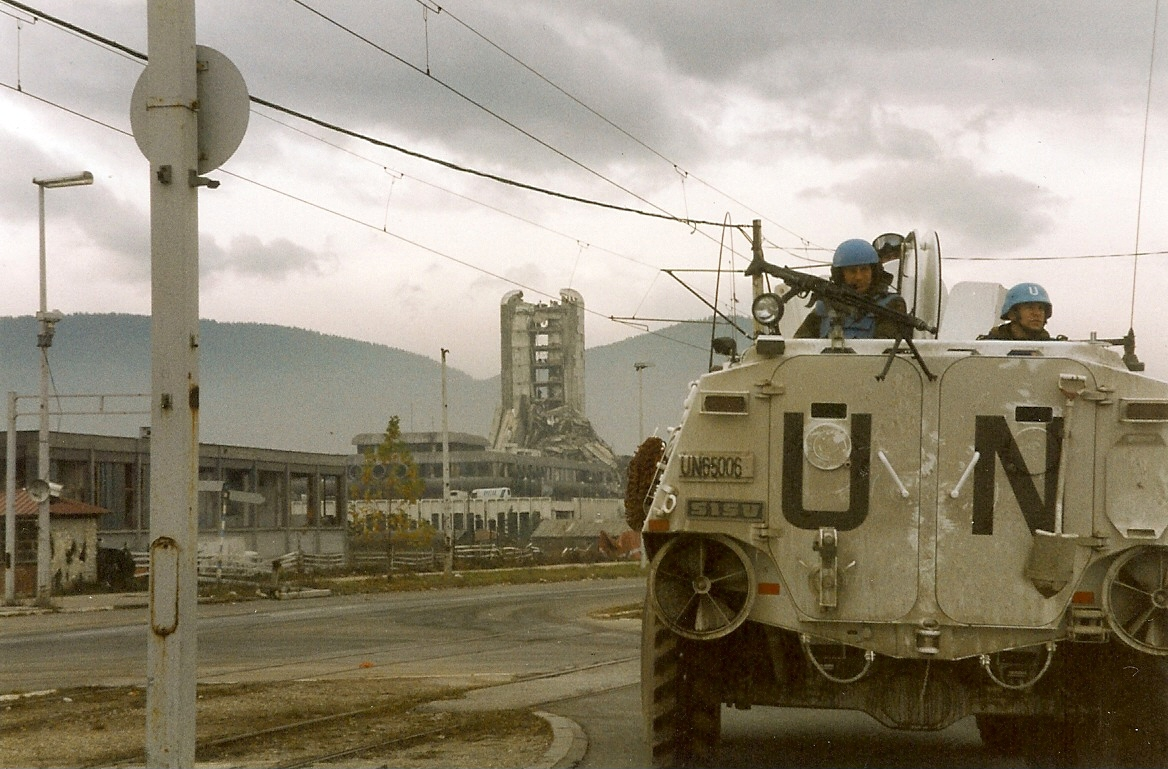 Norwegian UN troops on their way up Sniper Alley in Sarajevo, November 1995